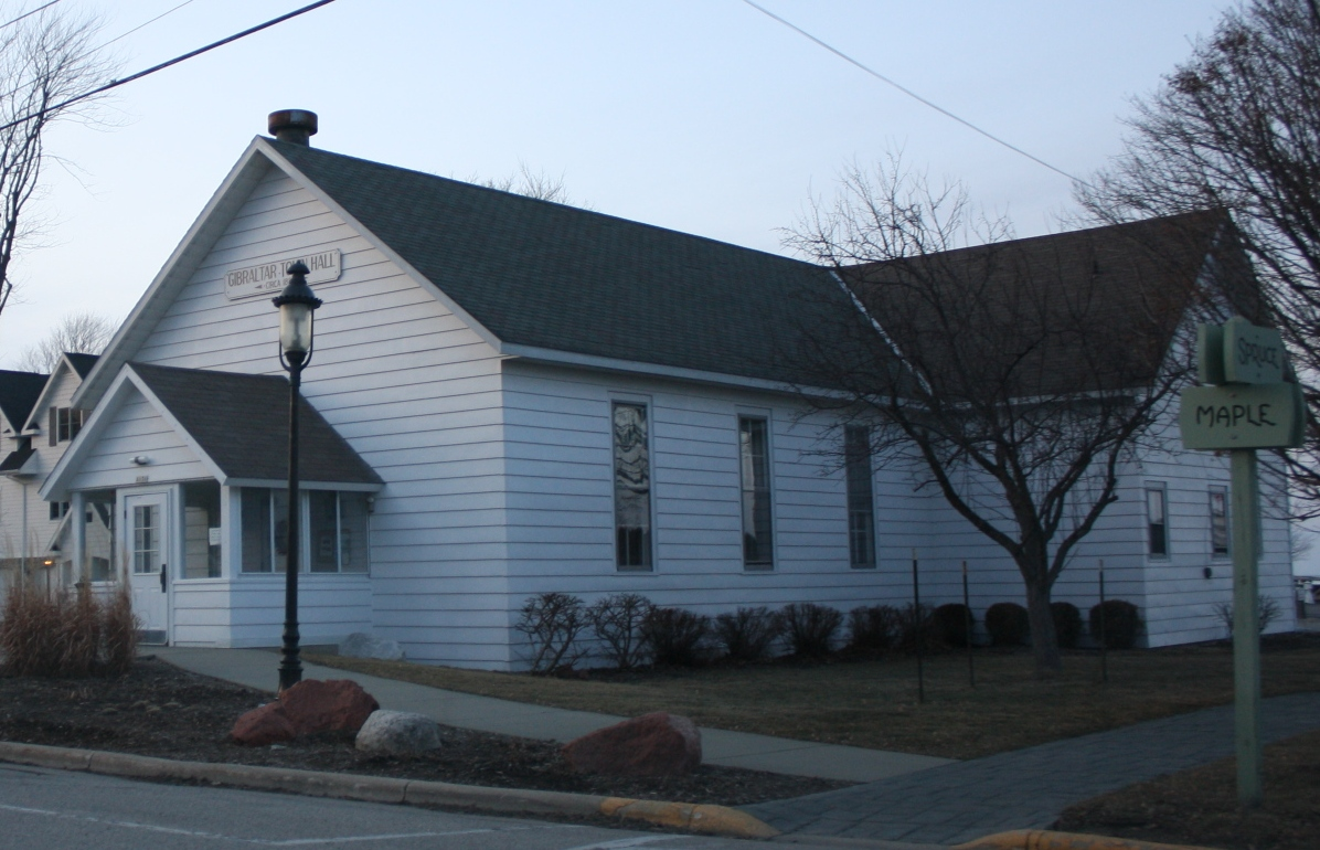 The town hall for Gibraltar, Wisconsin in Fish Creek, Wisconsin. It is located within the Welckers Resort Historic District.